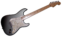 1988 Eric Clapton Signature Strat (Pewter Grey finish) SN: SE803490 (first batch?) with Gold Fender Lace Sensor pickups and added pearloid scratchplate